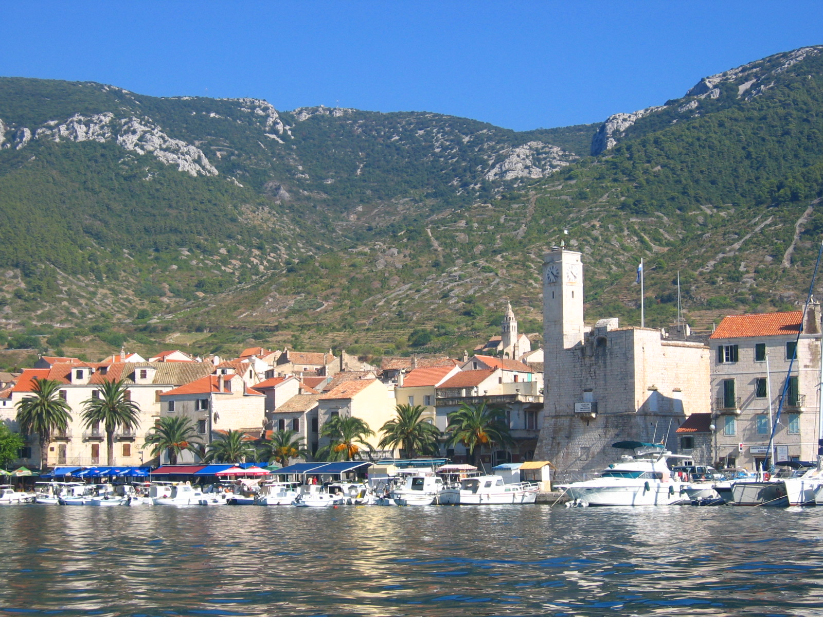 Komiža, Island of Vis, Croatia